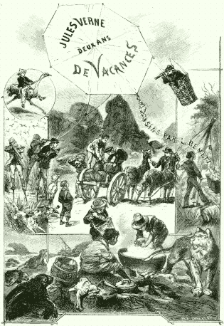 Original ilustration from Léon Benett to novel J. Verne "Two Years' Vacation".